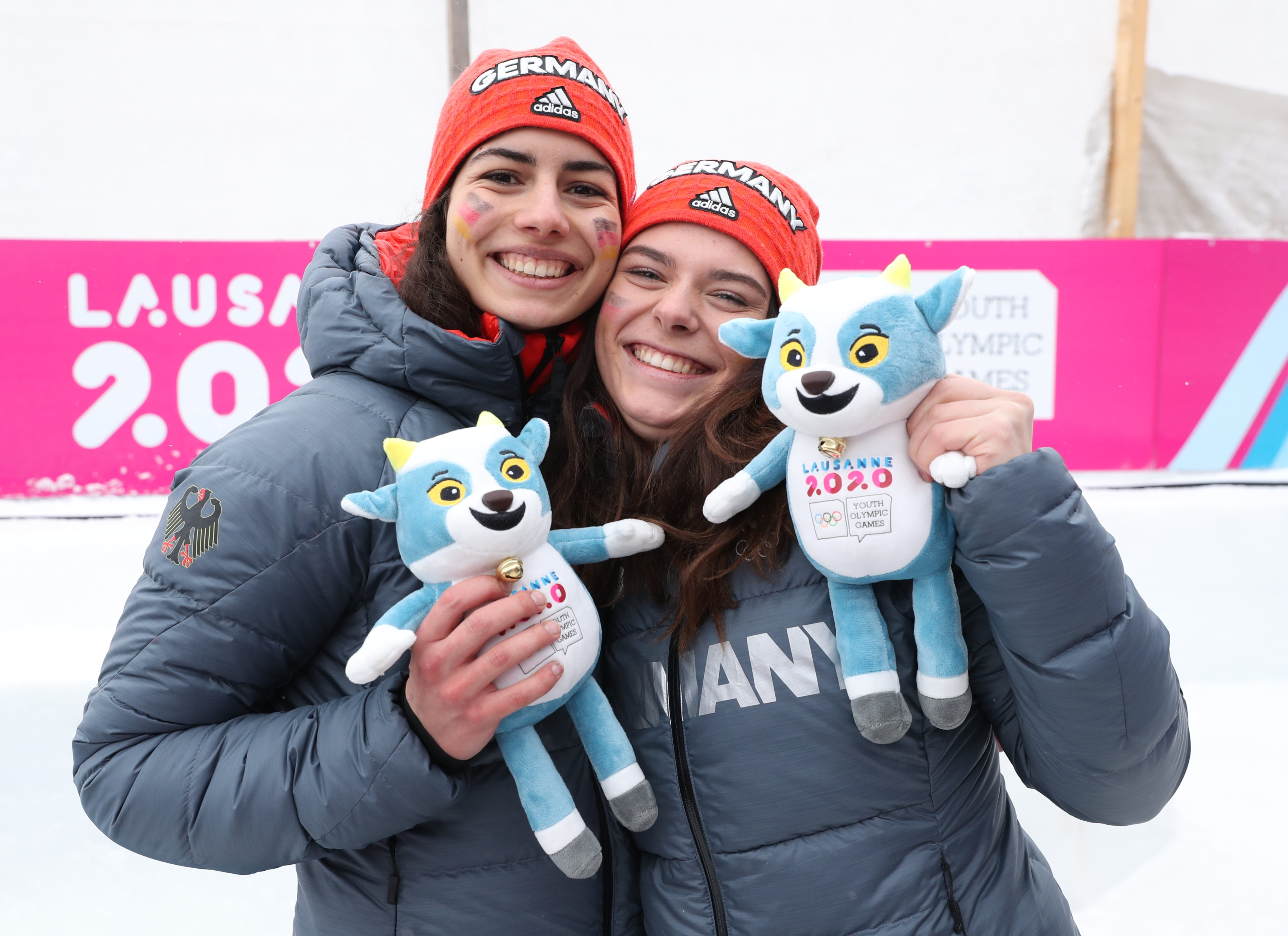 Mascot Ceremony Luge Women's Double at the 2020 Winter Youth Olympics in Lausanne: Jessica Degenhardt, Vanessa Schneider